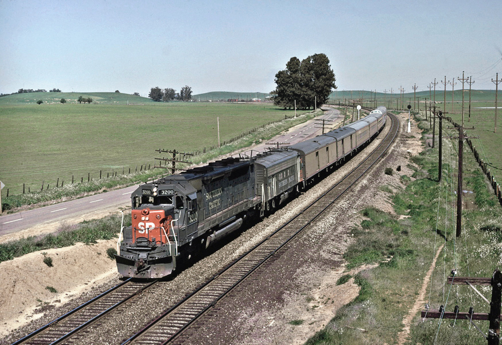 SP SDP45 #3200 with Train #101, The City of San Francisco Westbound at Cannon (Near Fairfield) Early April 1971